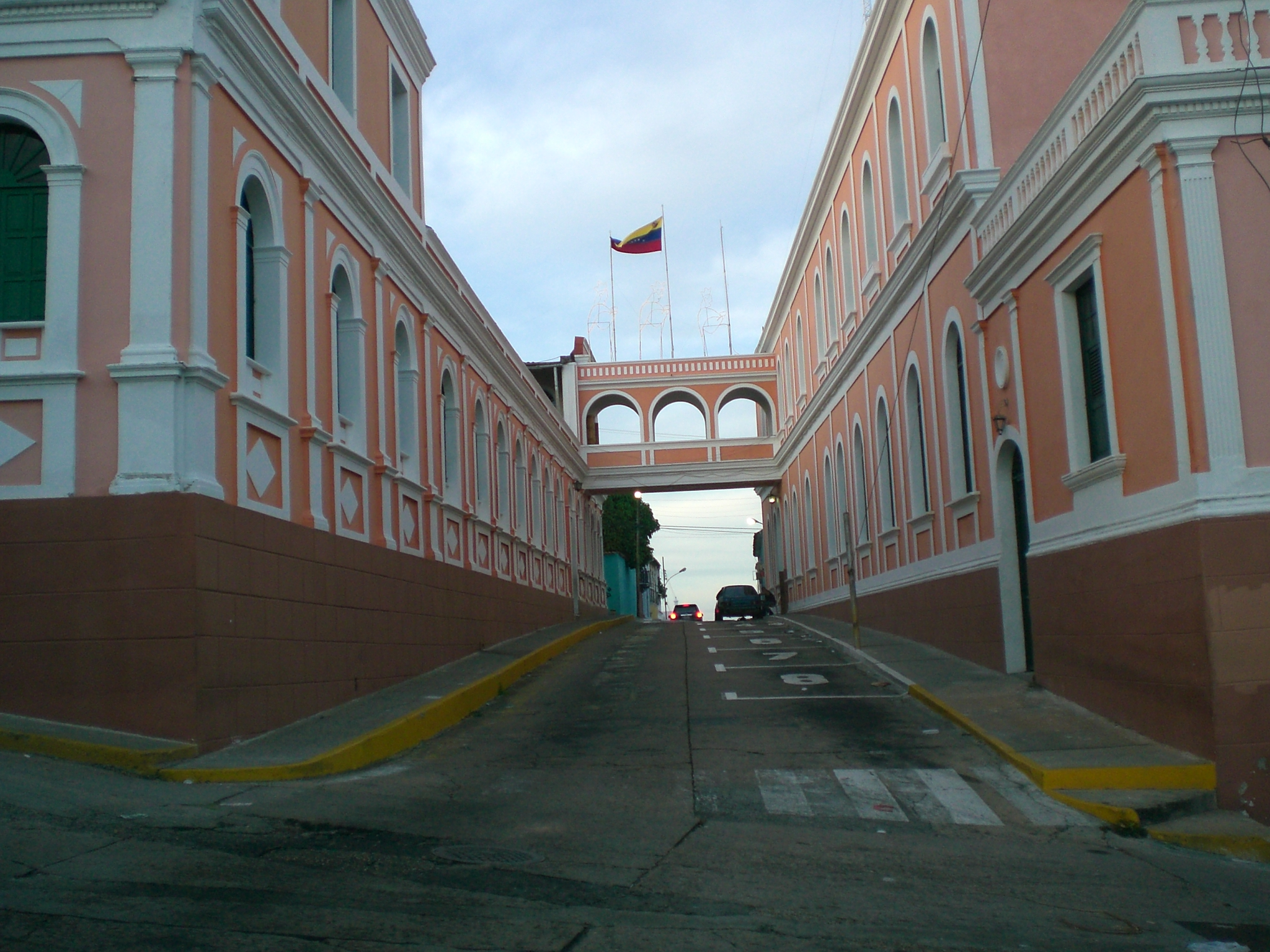 Ciudad Bolívar City Hall.